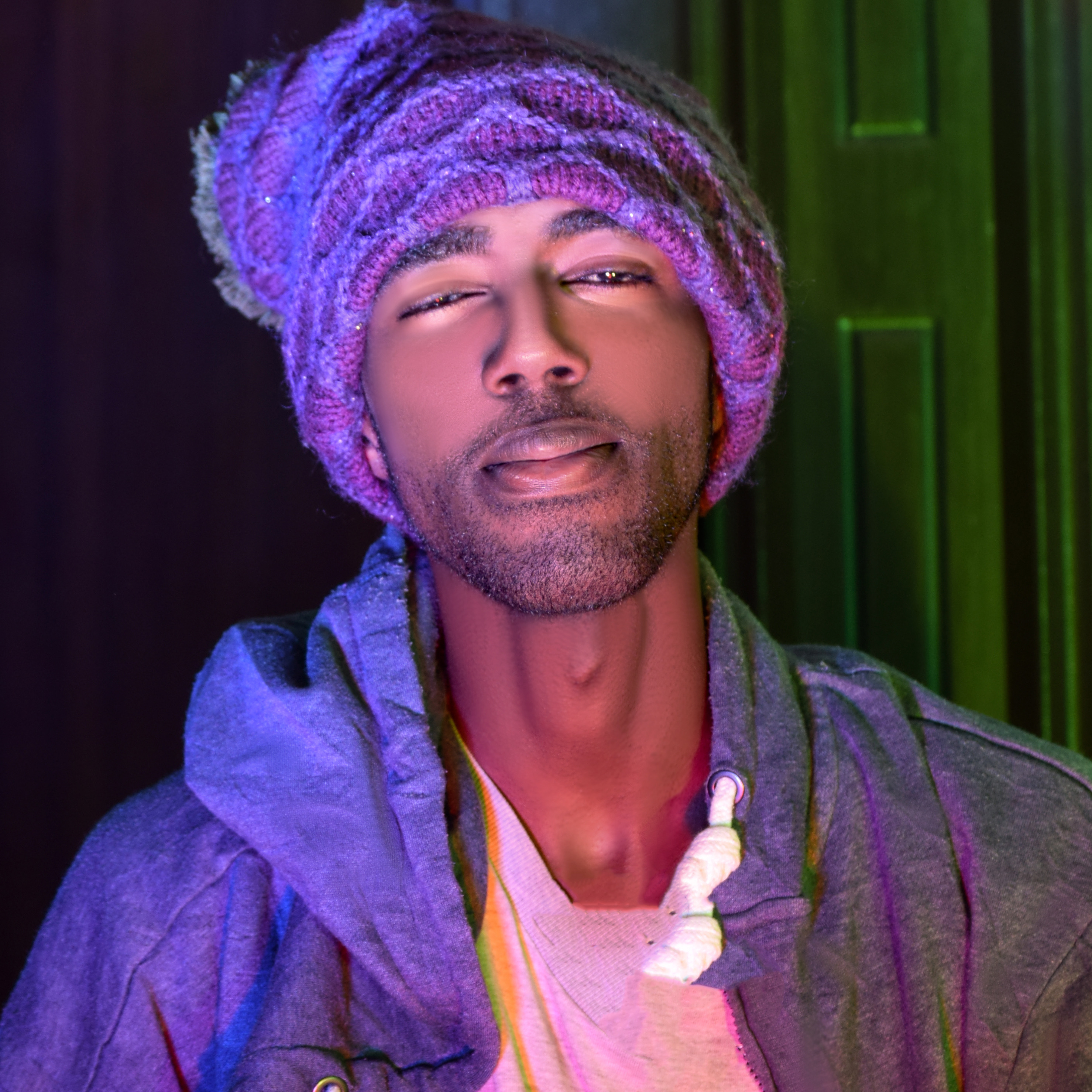 This is a picture of Zayn Africa, Nigerian musical artist Hausa: Wannan hoton Zayn Africa ne, mawakin Najeriya.